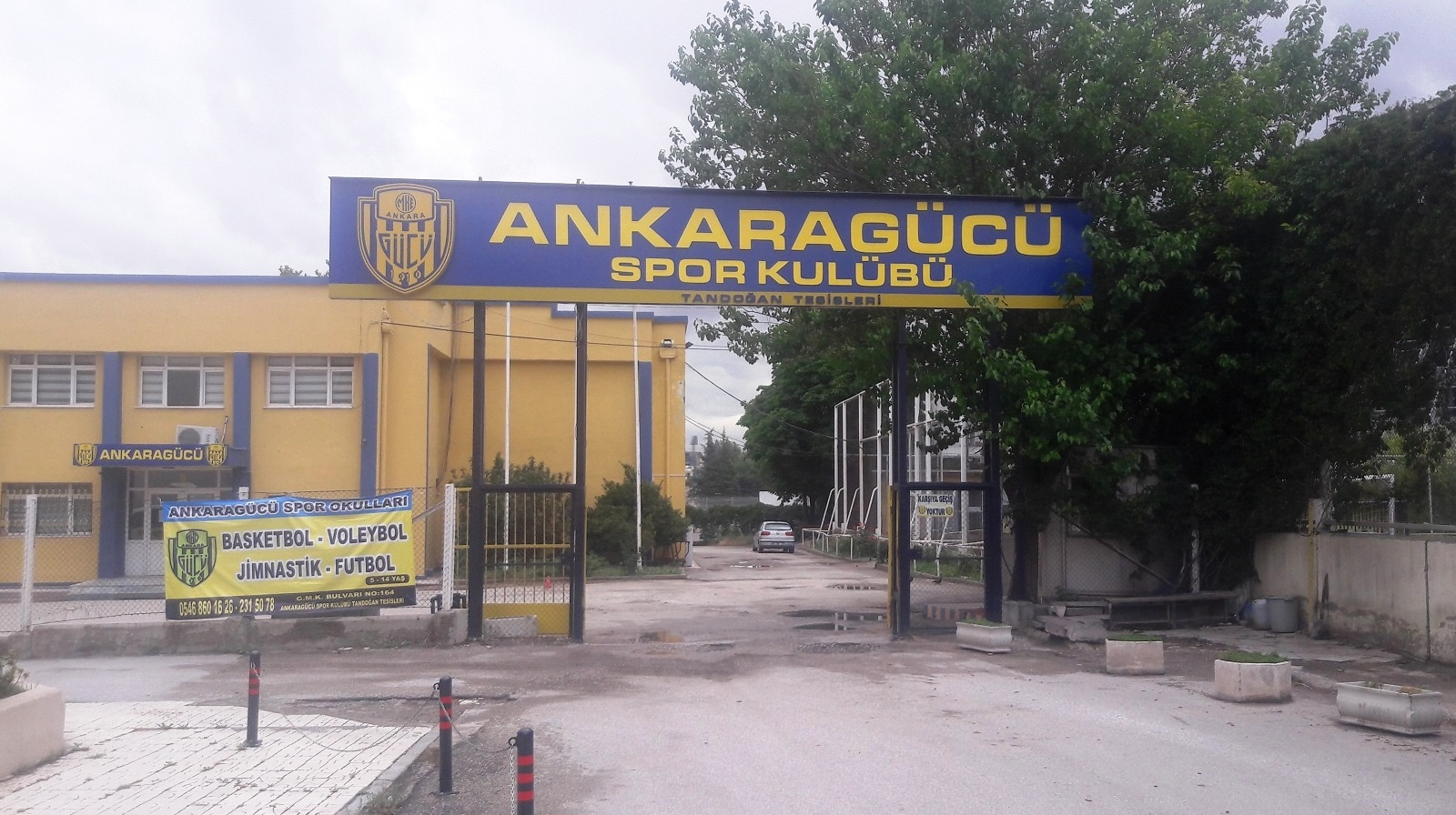 MKE Ankaragücü Sport Facility in Ankara.